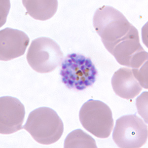 Schizont of P. vivax in a thin blood smear.